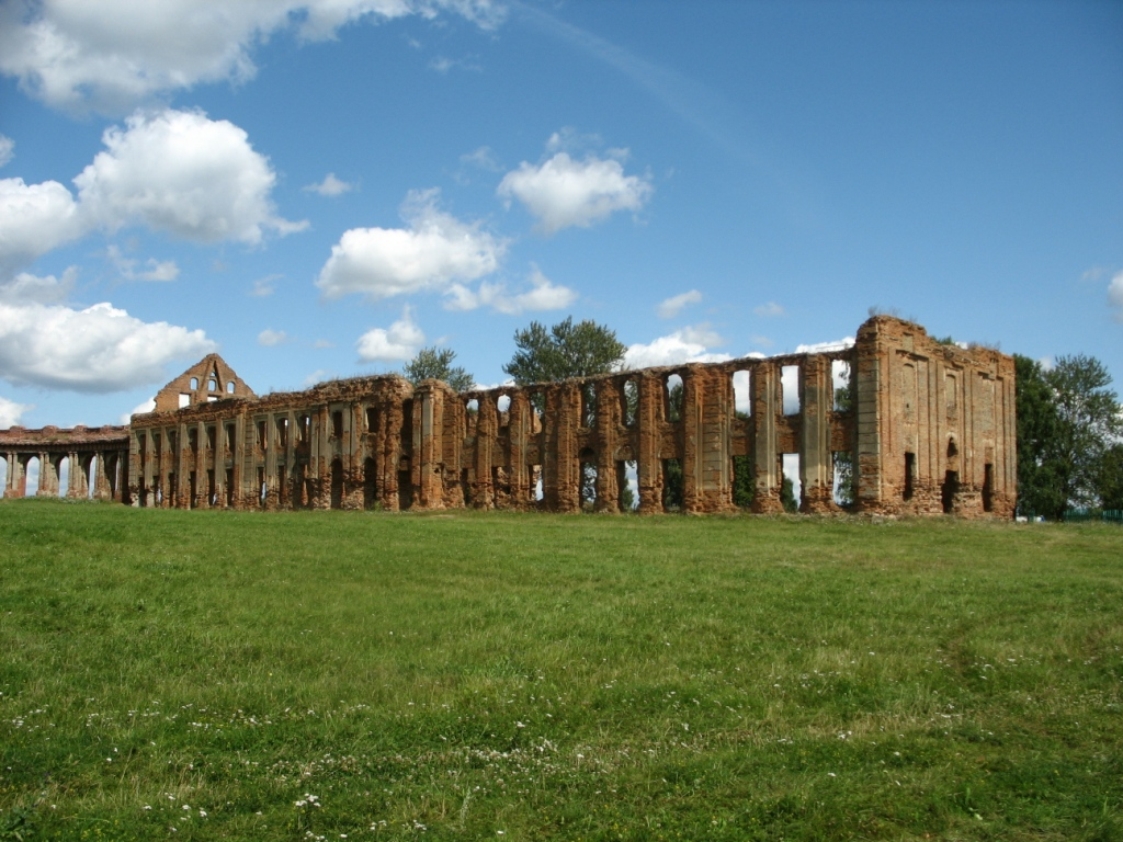 Palace of Sapieha (Ruzhany), Belarus